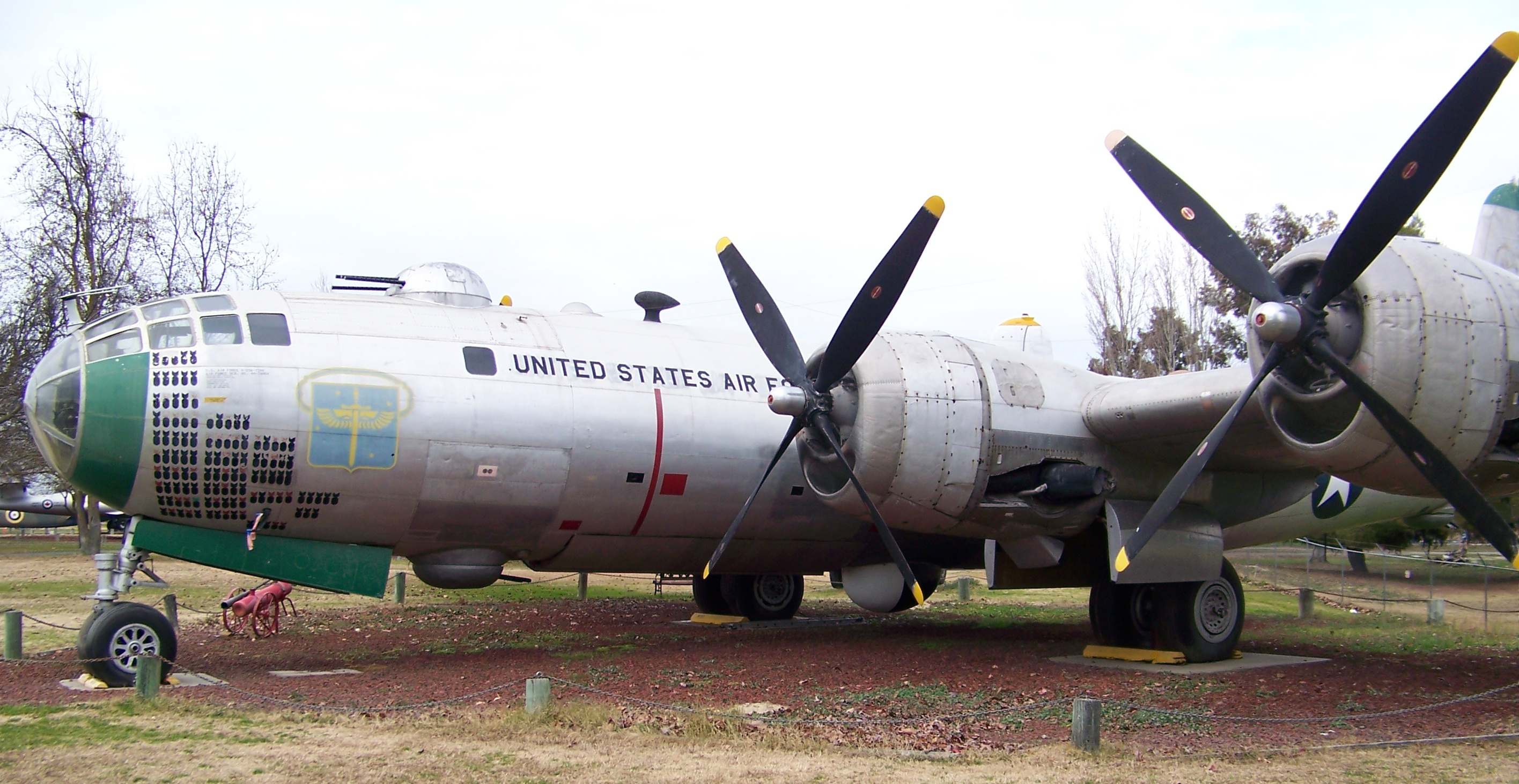 A Boeing B-29 Superfortress on display at the Castle Air Museum in Atwater, California. The aircraft had a top speed of 358 mph and required a crew of 10.